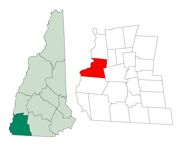 Map of a municipality in Cheshire County, New Hampshire